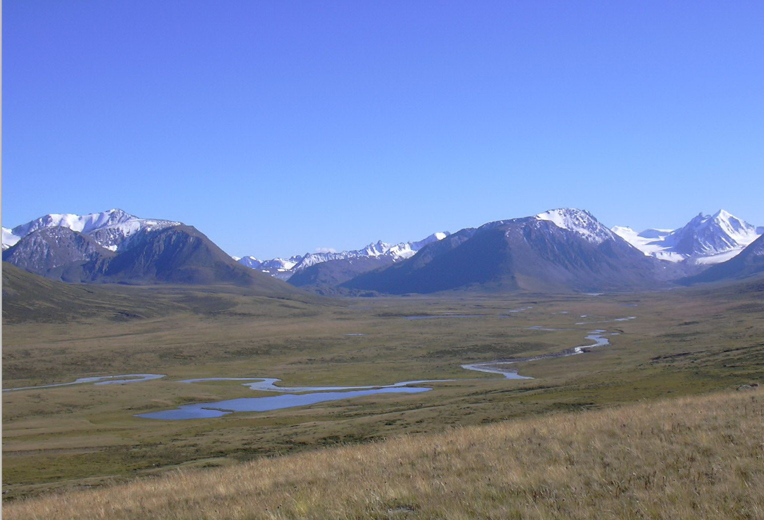 Ukok Plateau with Ak-Alakha River (Argut River tributary)